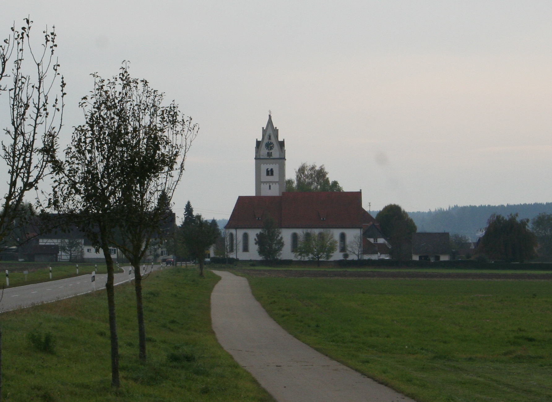 St. Leonhard, Billenhausen